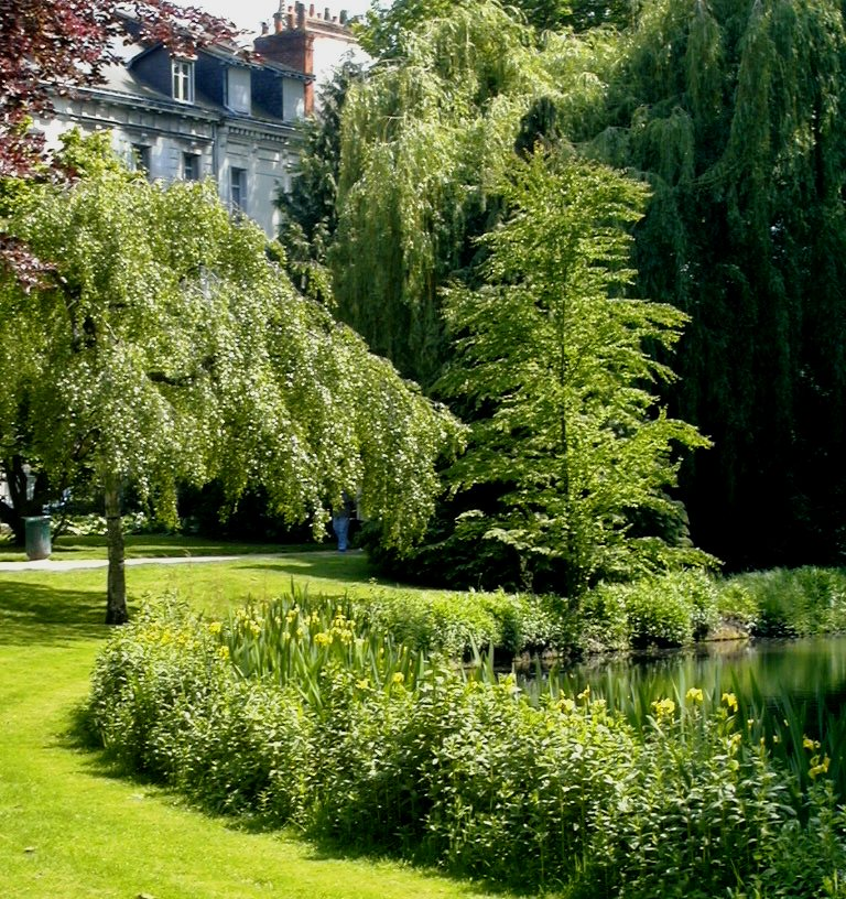 Public garden in Tours, France.